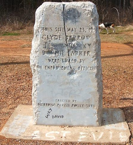 This is the memorial at the location where Bonnie and Clyde were shot in Gibsland Louisiana. It is in poor condition.